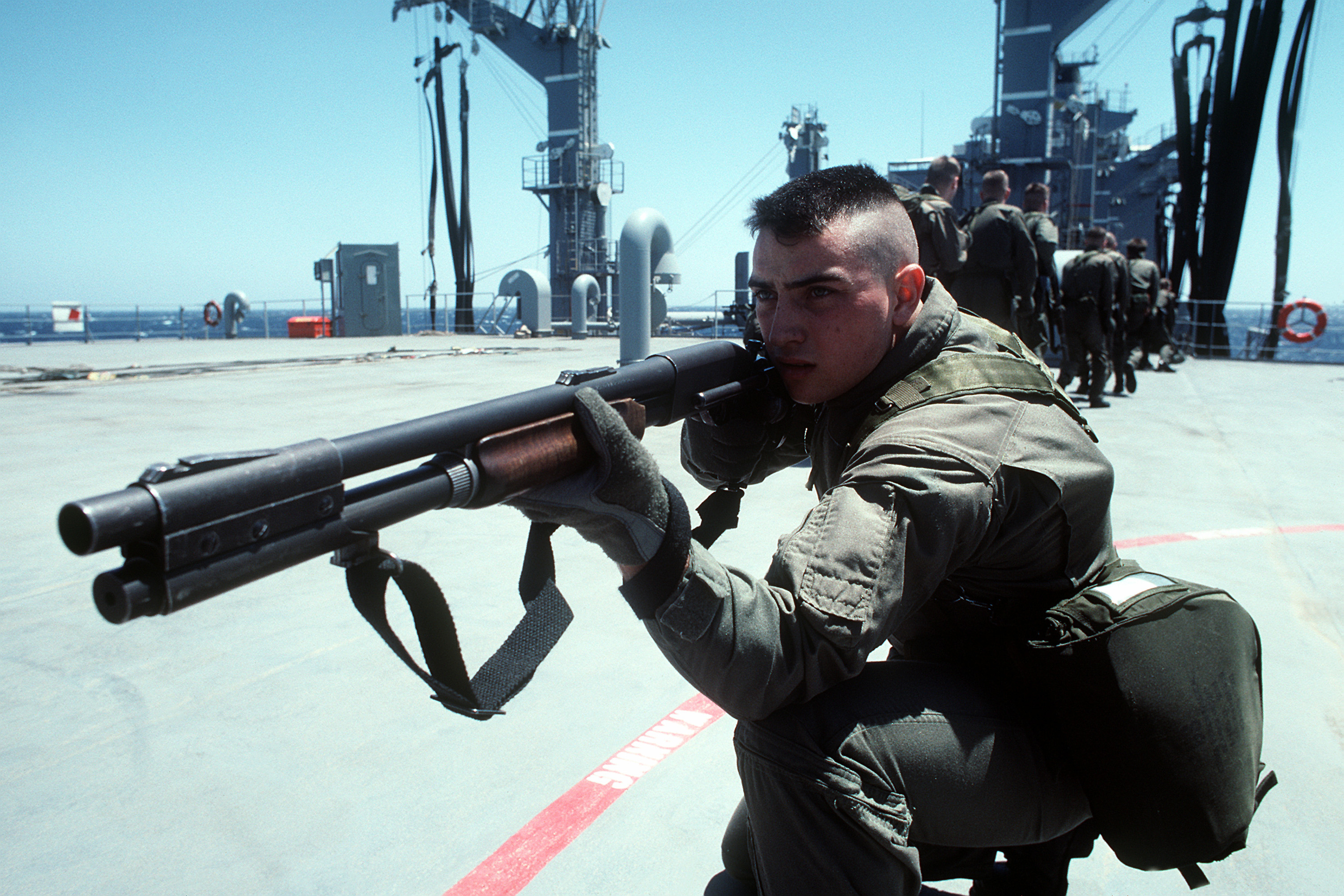 Soldier with Remington 870